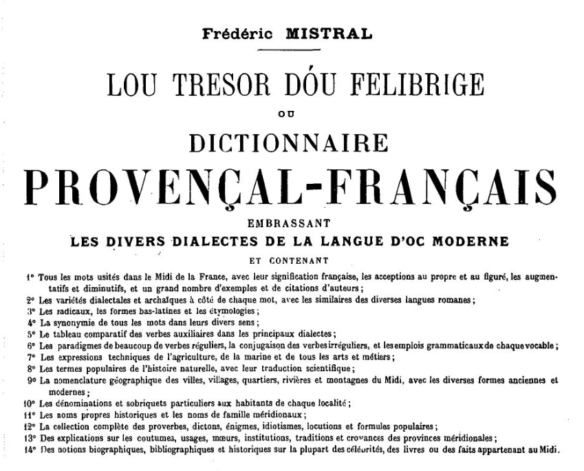 Front page of Tresor dóu Felibrige (1878). Capture from digitised book.